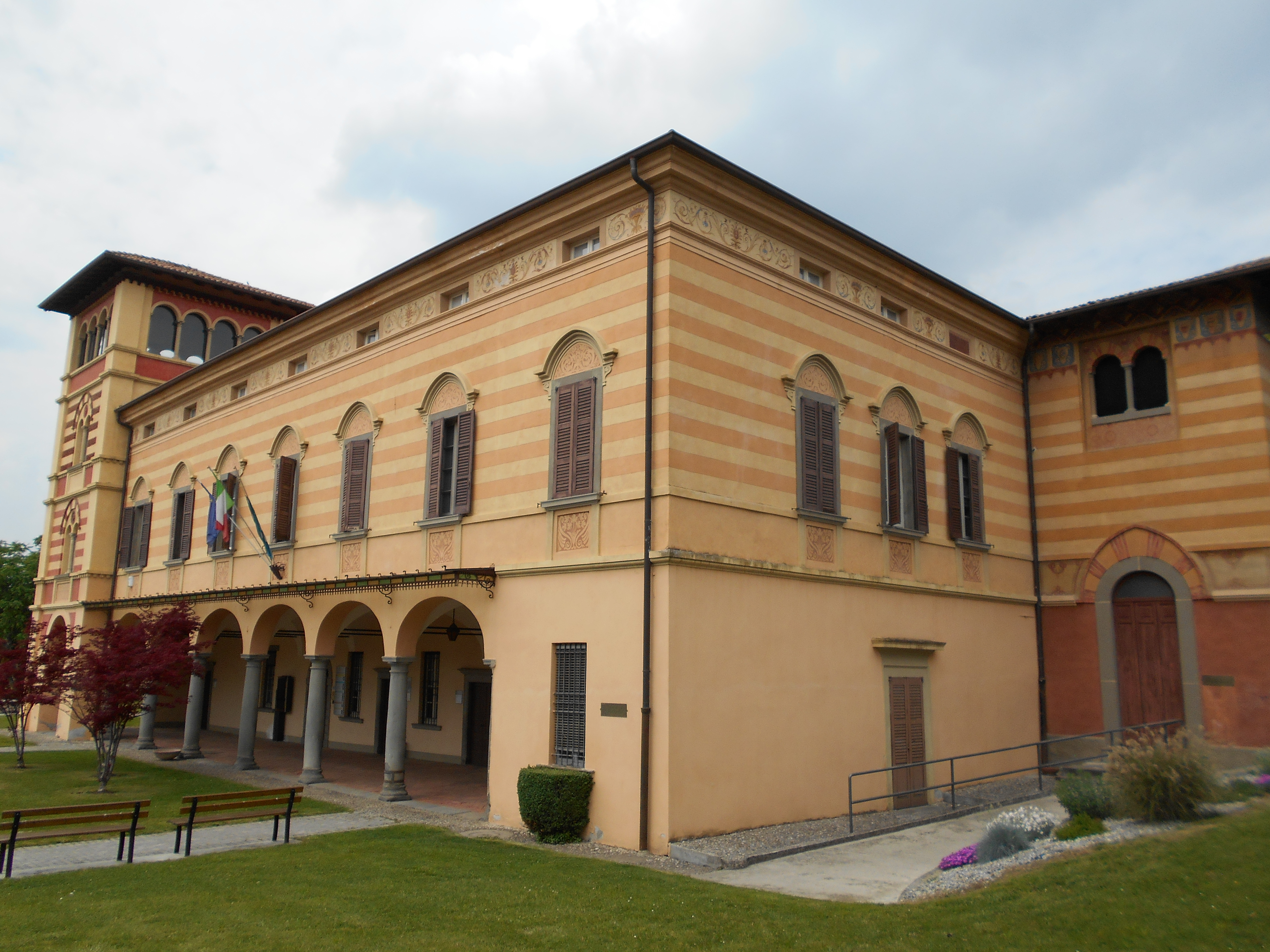 city hall, Erbusco